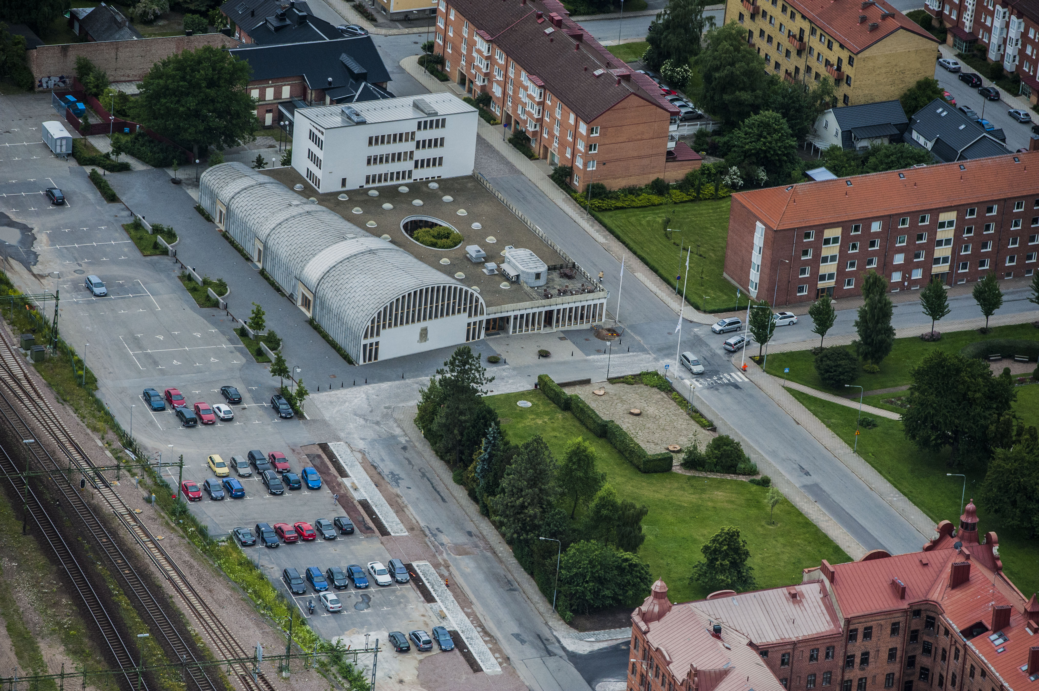 The Eslöv Cultural Center